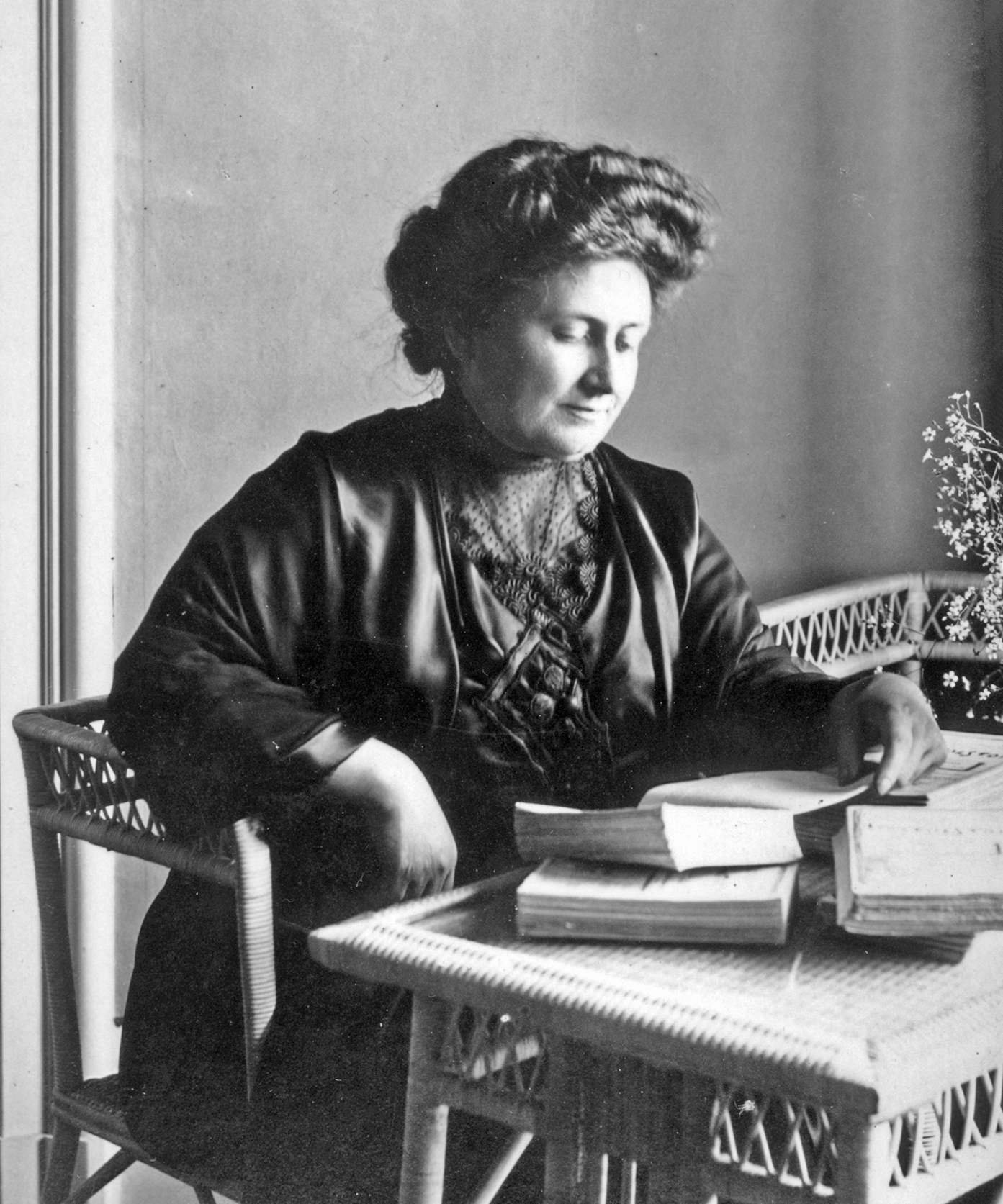 Public domain photograph of Maria Montessori from 1913